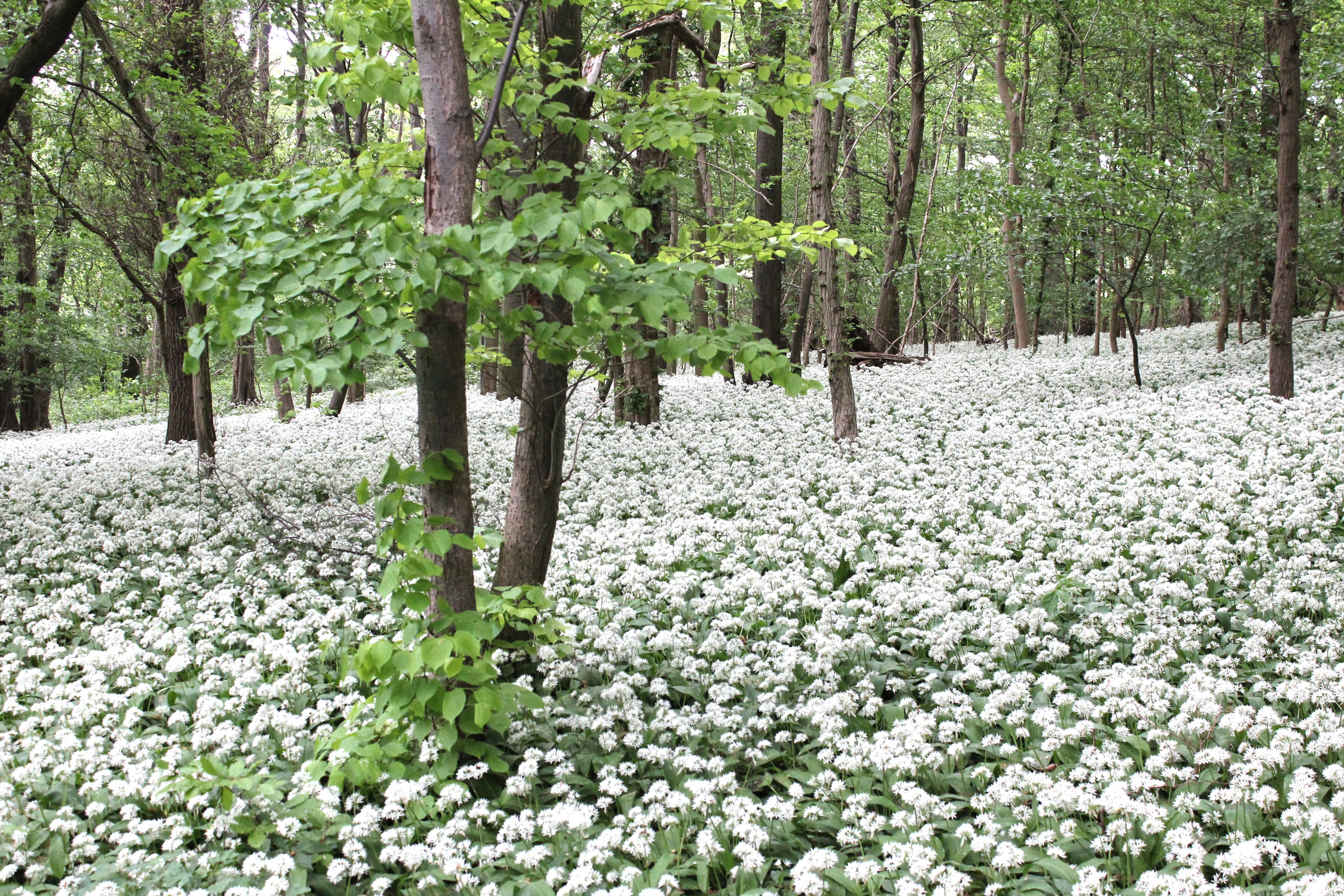 Bärlauch im Naturschutzgebiet Rieseberg